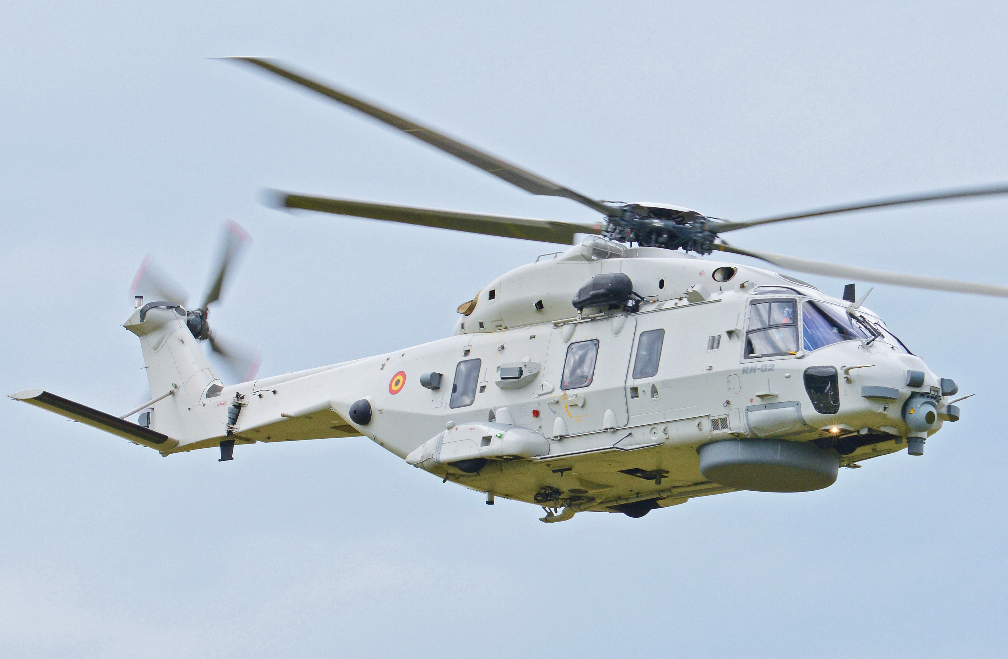 NH Industries NH90-NFH